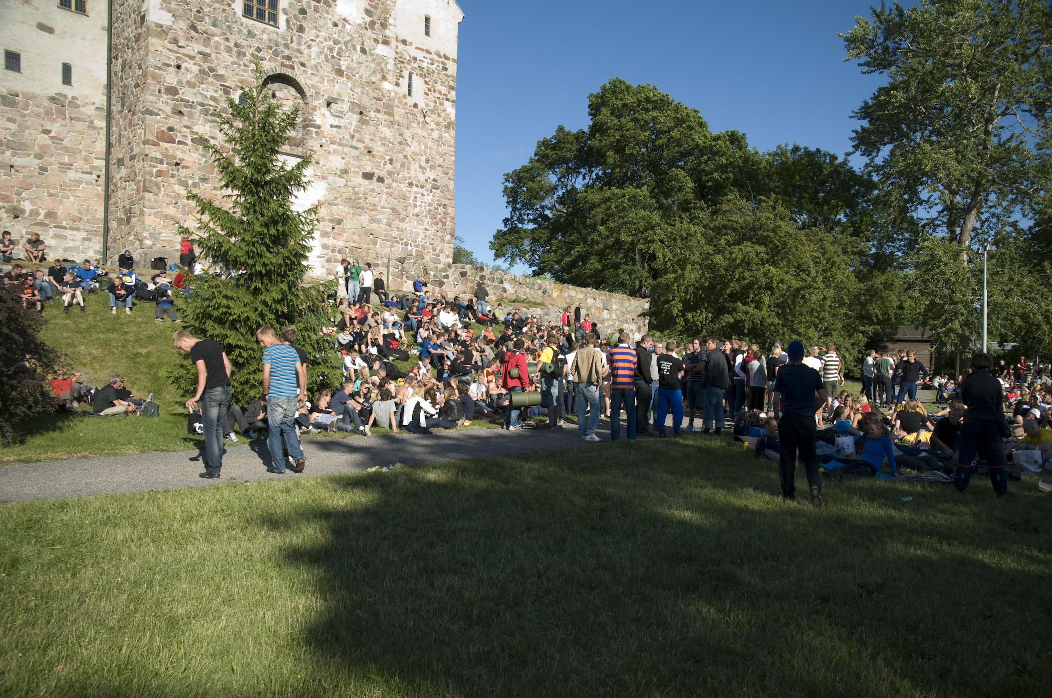 Party by Turku Castle